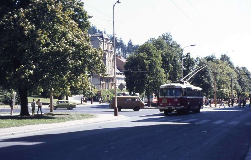 Škoda 9Tr Trolleybus in Mariánské Lázně trollyebus system in 1976 cs|Trolejbus Škoda 9Tr v Mariánských Lázních